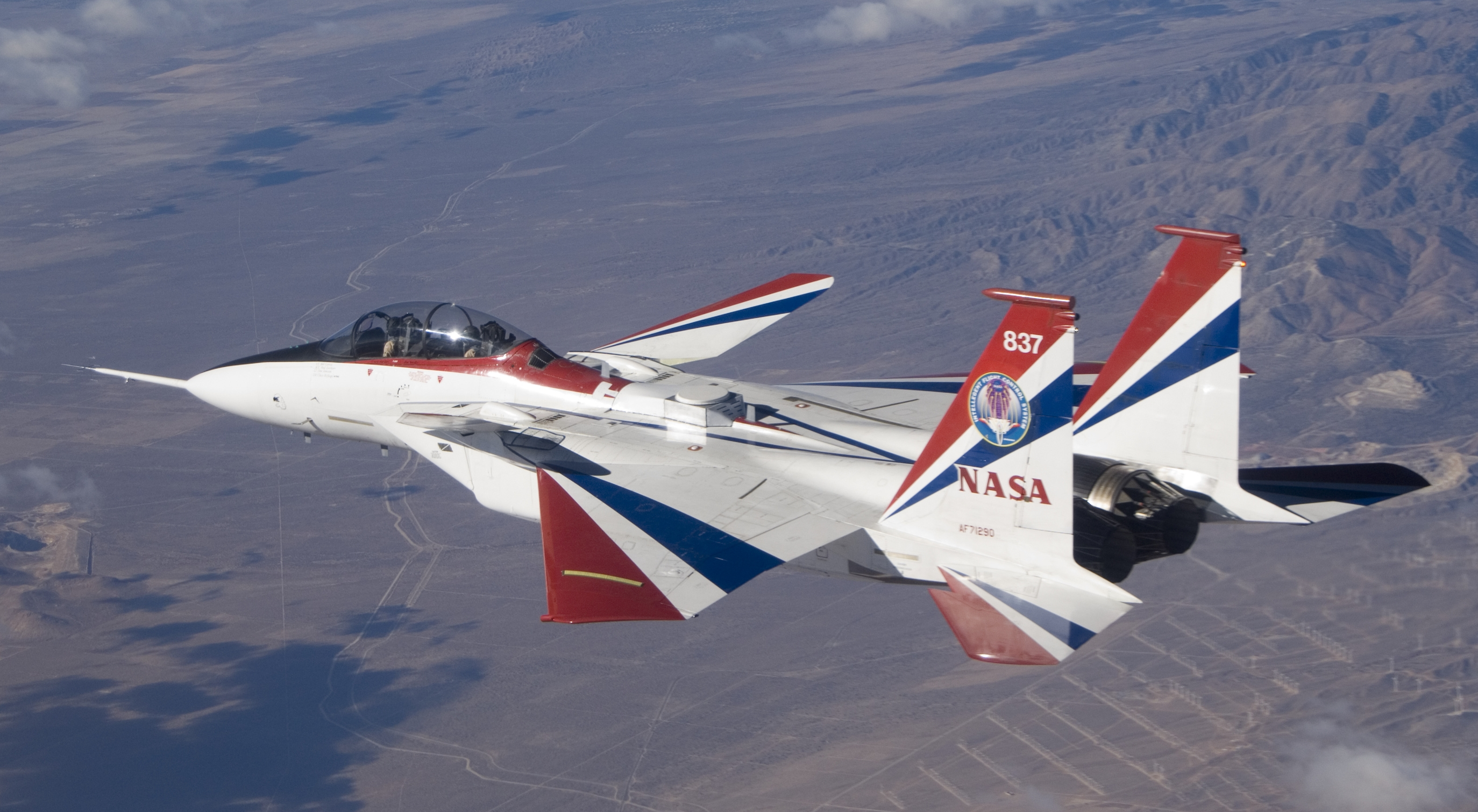 New range safety and range user system antennas for the ECANS project can be seen just behind and to the left of the cockpit on NASA's NF-15B research aircraft.